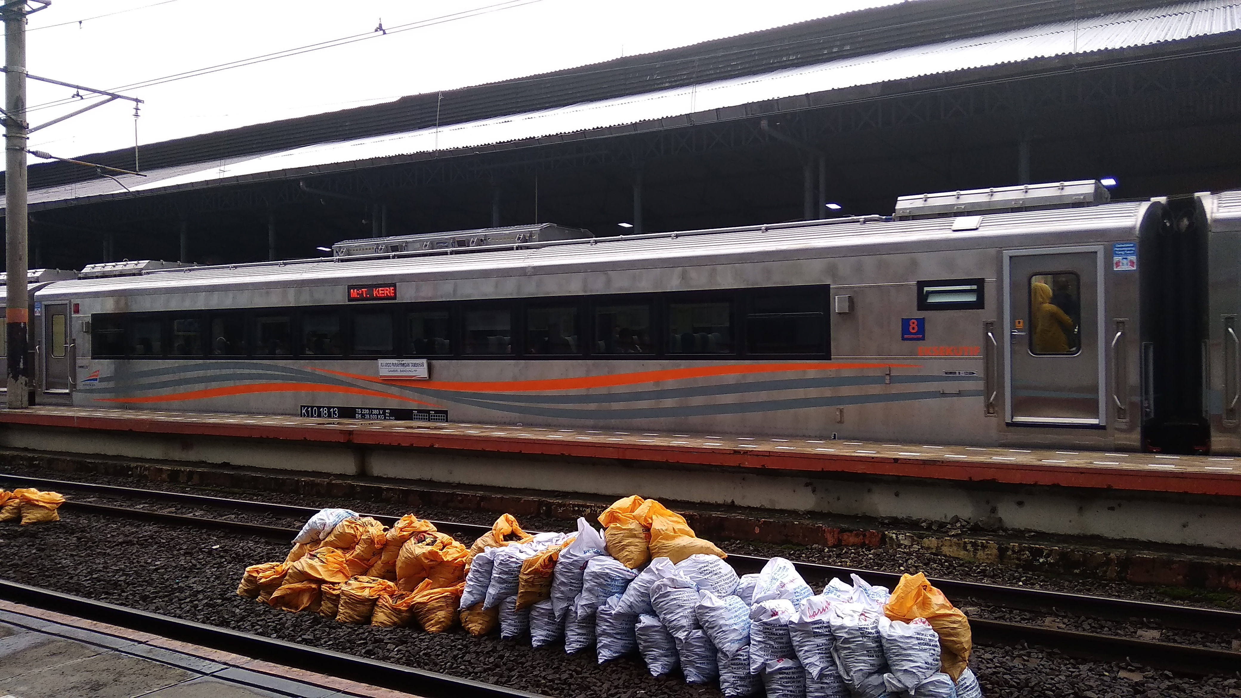 New 2018 stainless steel 1st class passenger car owned by Kereta Api Indonesia in Jatinegara Station.